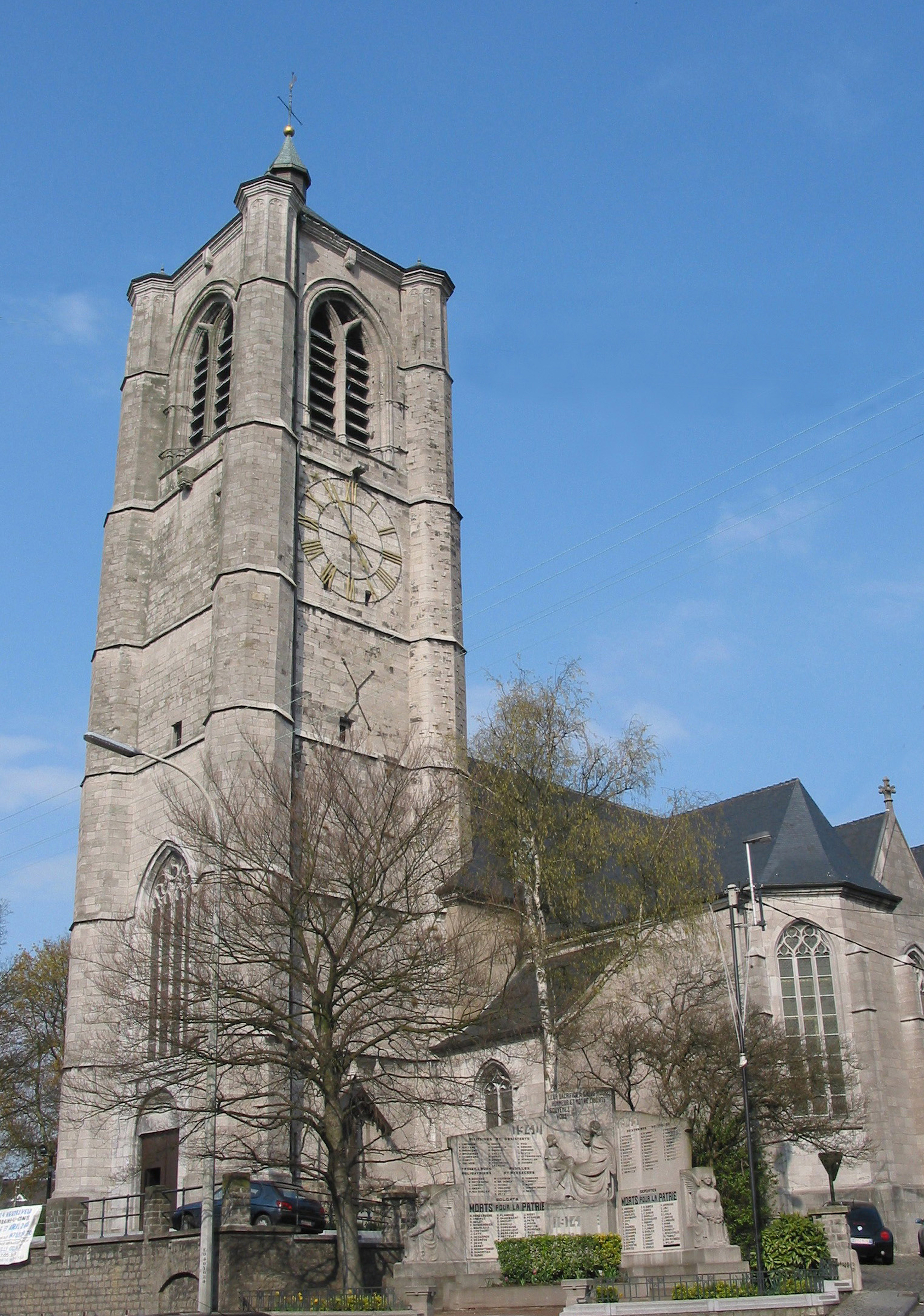 Braine-le-Comte (Belgium), the Saint Géry church.